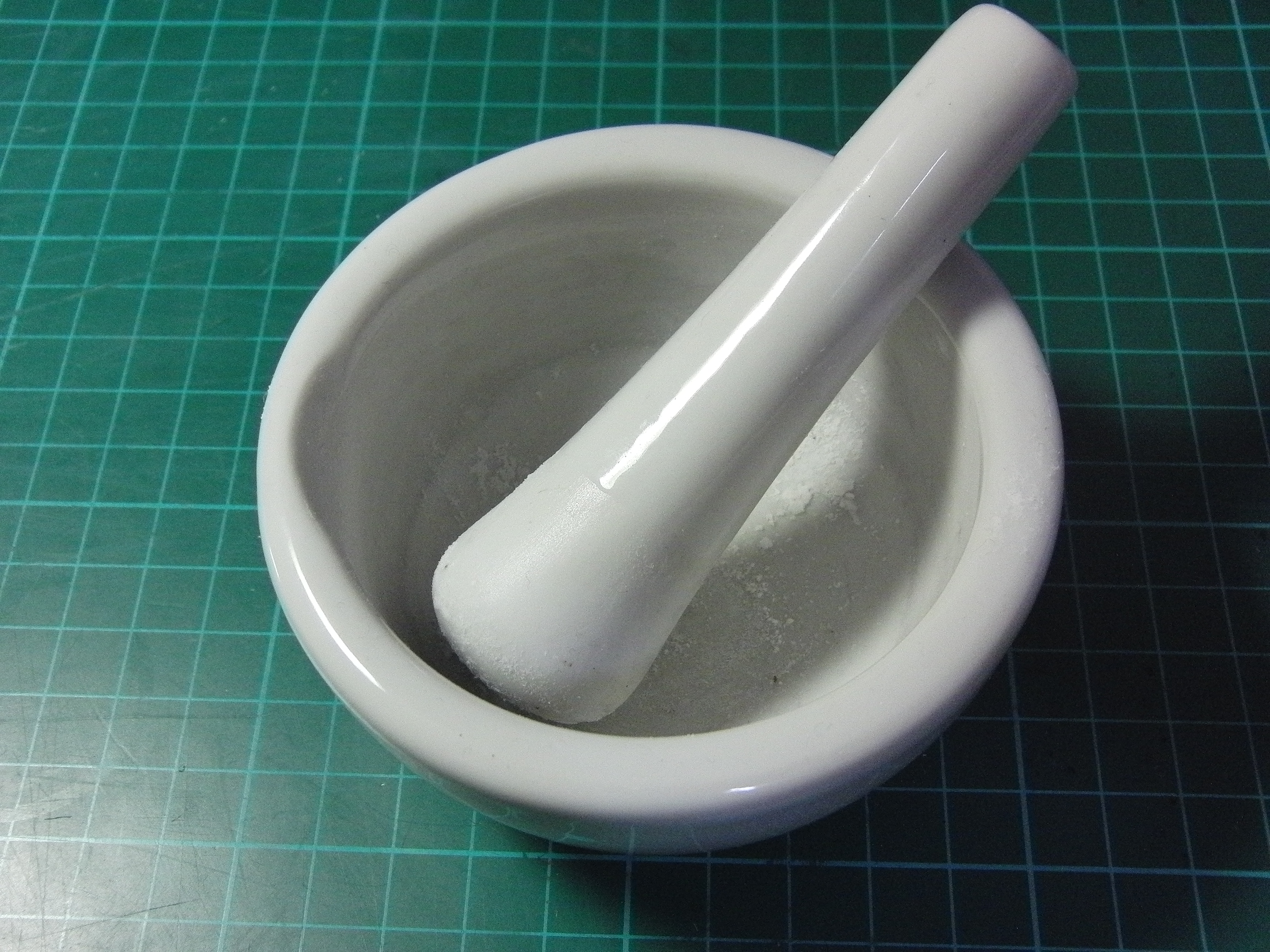 Mortar and pestle